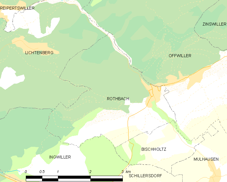 Map of French municipality